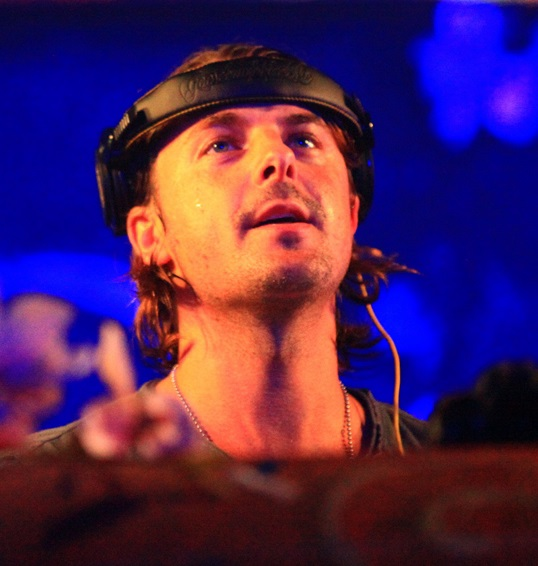 Axwell playing live at TomorrowWorld Festival 2013